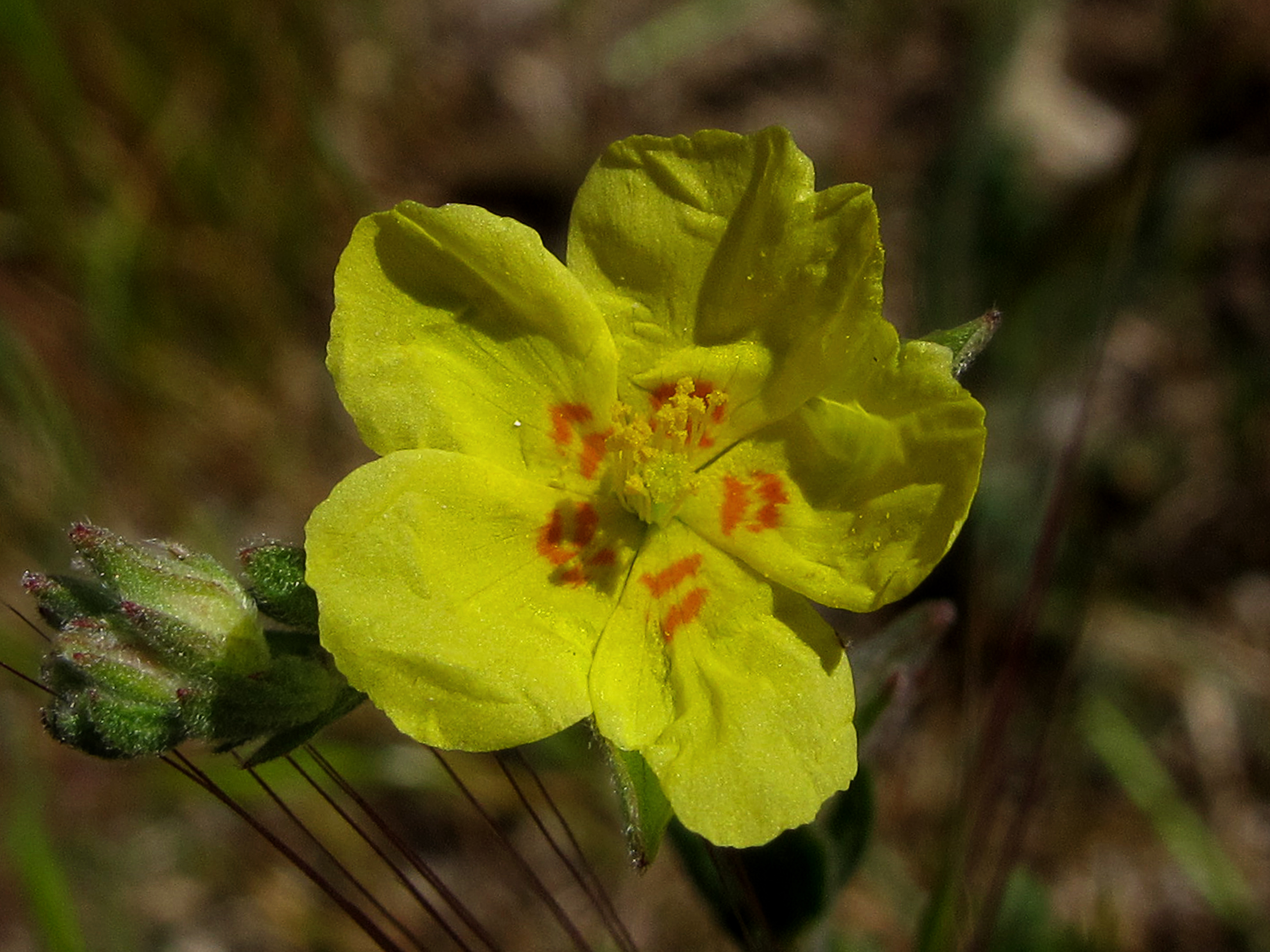 Helianthemum salicifolium (L.) Mill. - Willowleaf frostweed